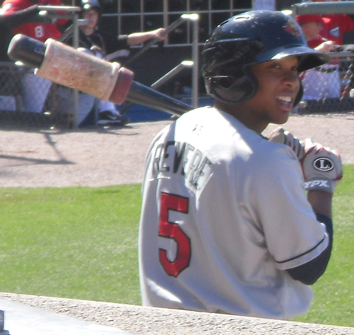 Minnesota Twins outfielder Ben Revere with the Rochester Red Wings. Taken at Alliance Bank Stadium in Syracuse, NY.